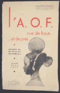 Cover of publicity journal, French West Africa Colonial Government, Commerce Office. March 1938